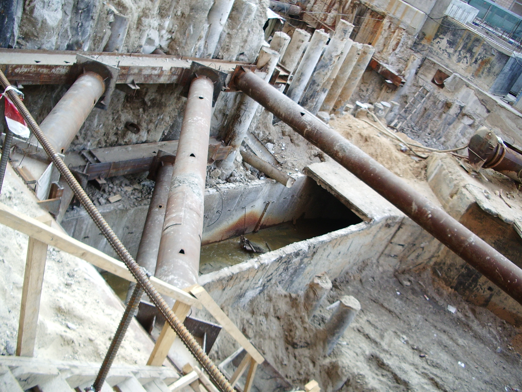 Tarakanovka river above Alabyana-Baltiysky tonnel